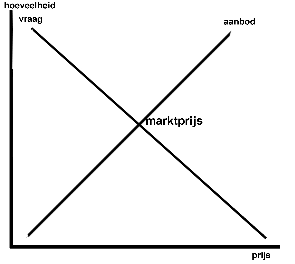 Dutch Supply and demand curve